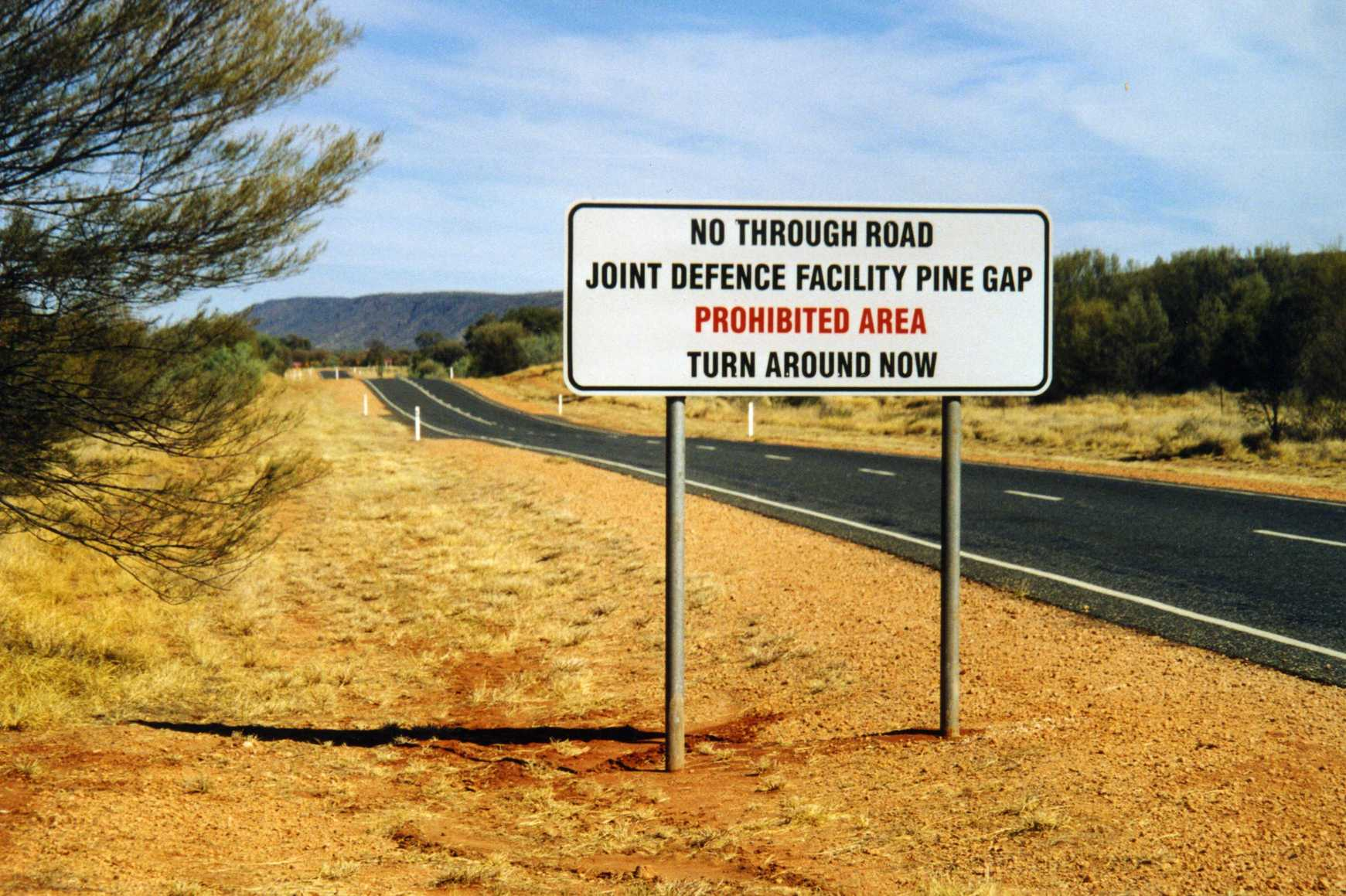 The road to the Joint Defence Facility of Pine Gap, near Alice Springs, Australia.